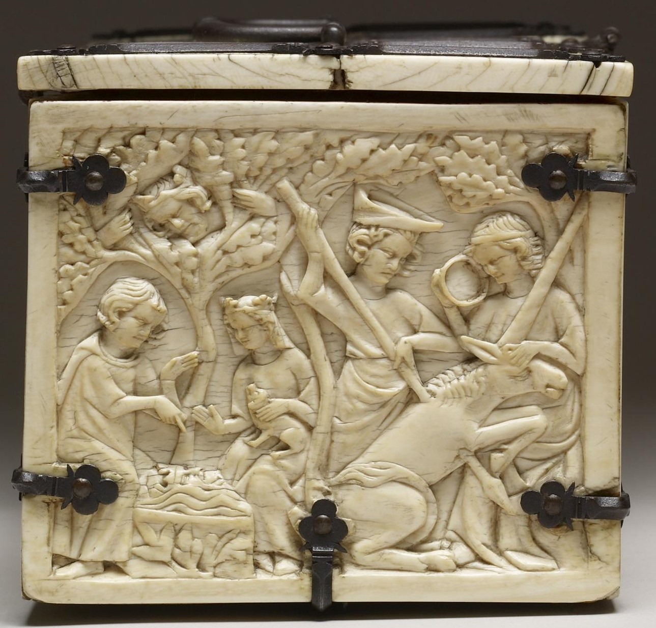 This splendid casket is carved with scenes from romances and allegorical literature representing the courtly ideals of love and heroism. In the center of the lid, knights joust as ladies watch from the balcony; to the left, knights lay siege to the Castle of Love, the subject of an allegorical battle. The remaining scenes on the casket are drawn from well-known stories about Aristotle and Phyllis, Tristan and Iseult, and tales of the gallant, heroic deeds of Gawain, Galahad, and Lancelot. The box may originally have been a courtship gift.